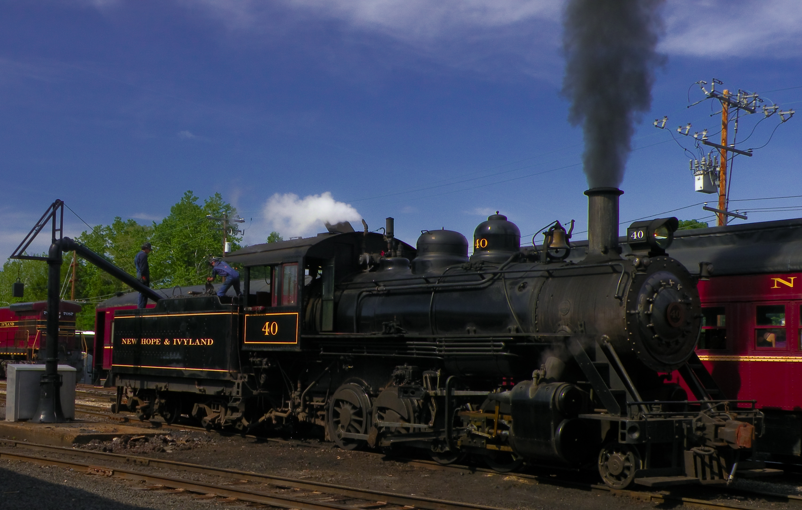 New Hope and Ivyland Railroad engine no. 40, New Hope, Pennsylvania. A type 2-8-0 locomotive built in 1925 by Baldwin.